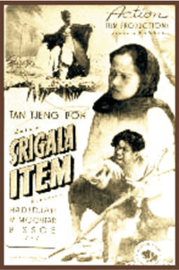 This is the film poster for the 1941 film Srigala Item.